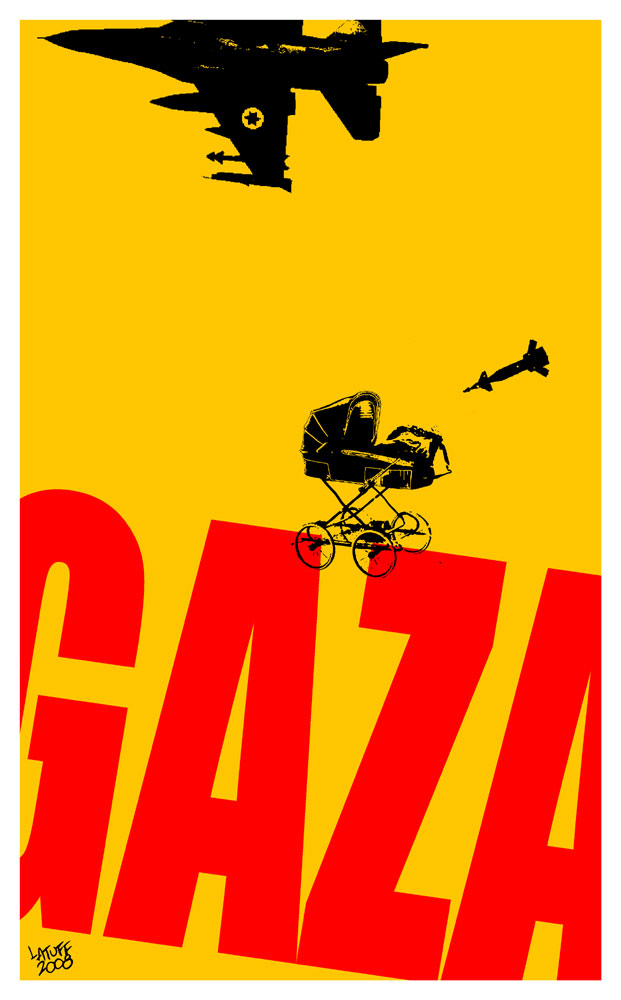 Gaza 2008